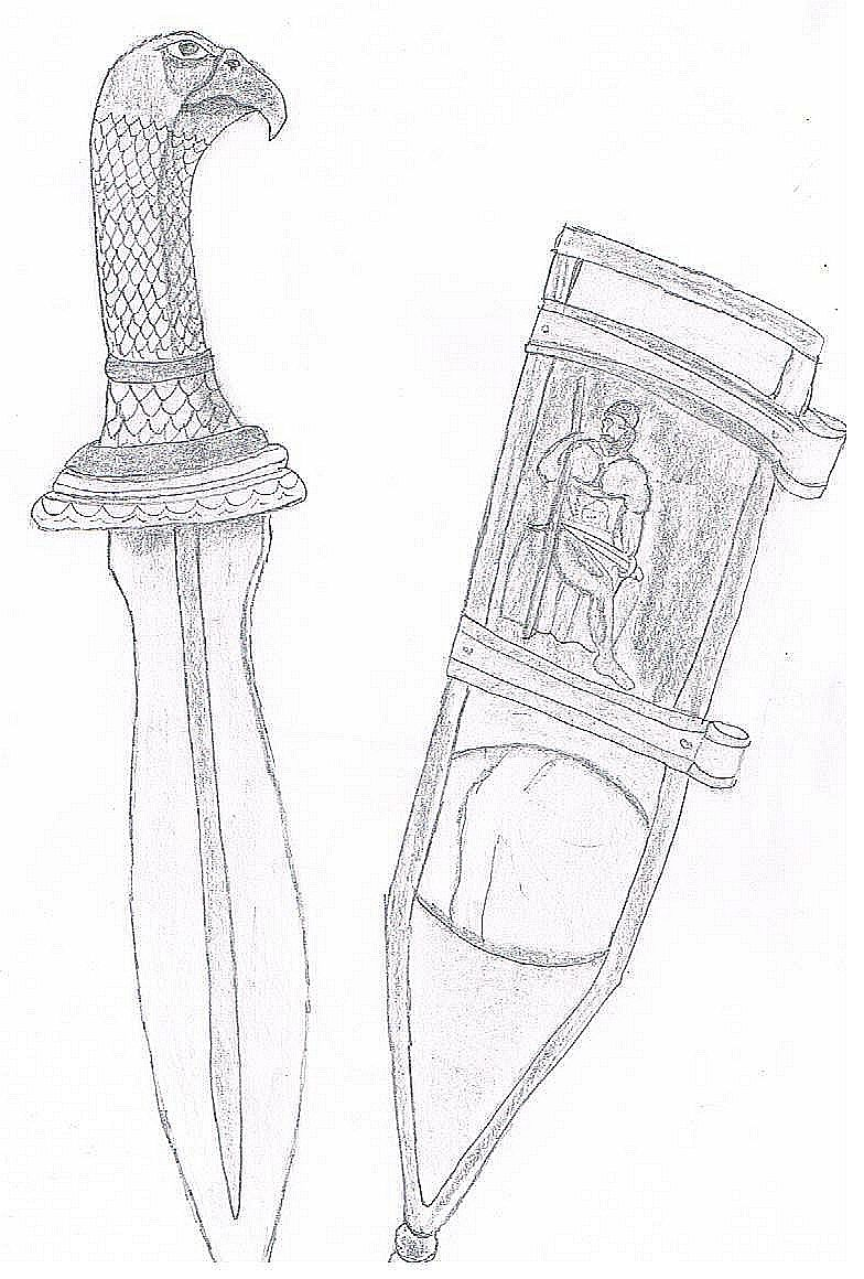 Parazonium